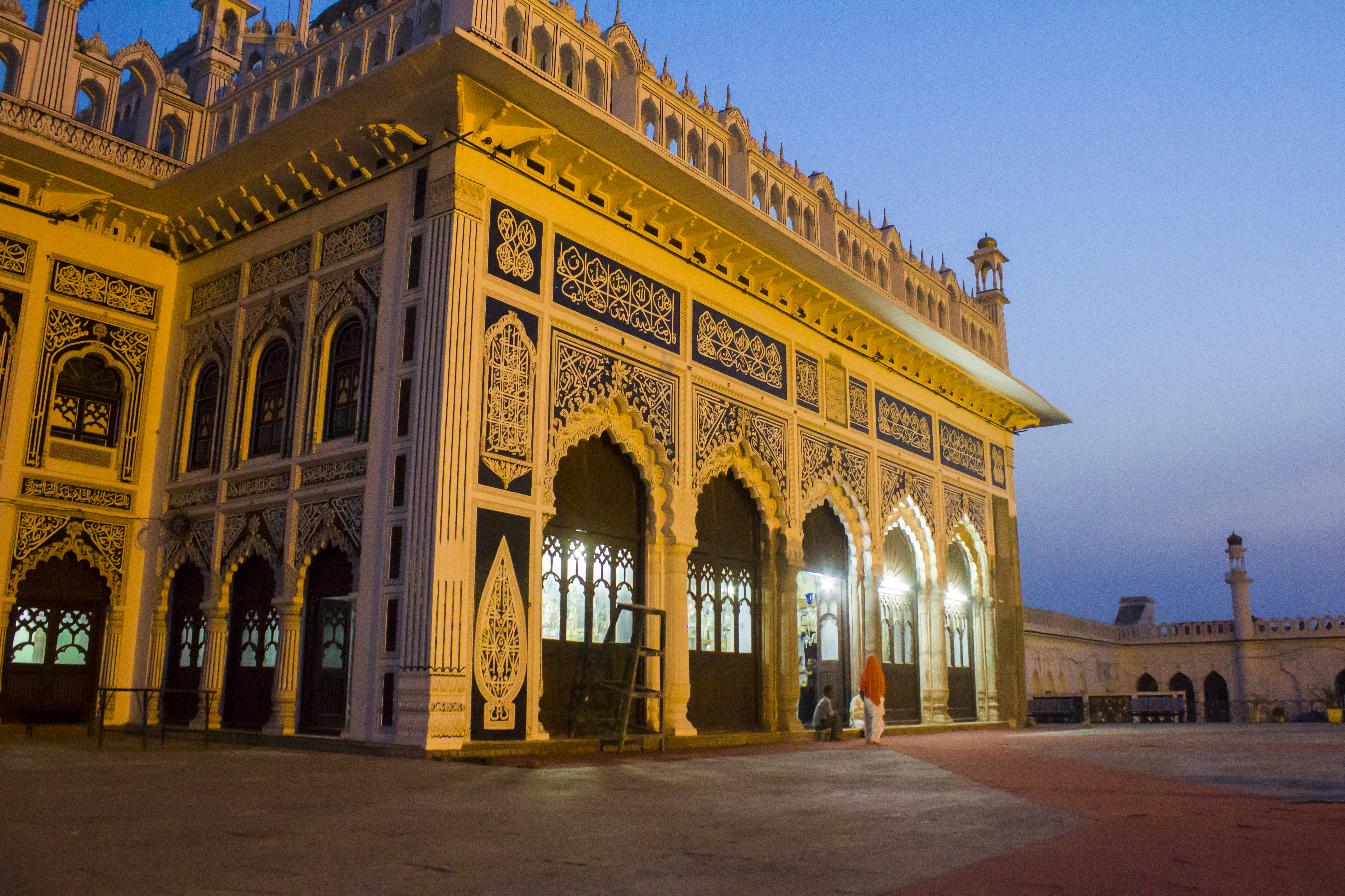 Chota Imambara in Lucknow.